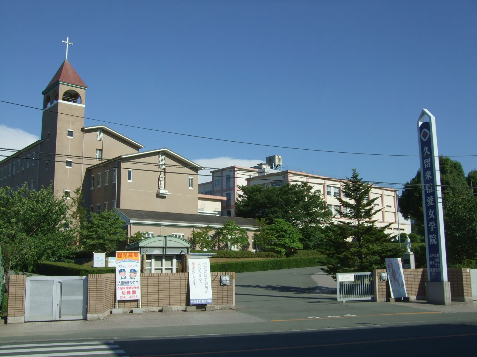 Kurume Shin-ai Girls' High School